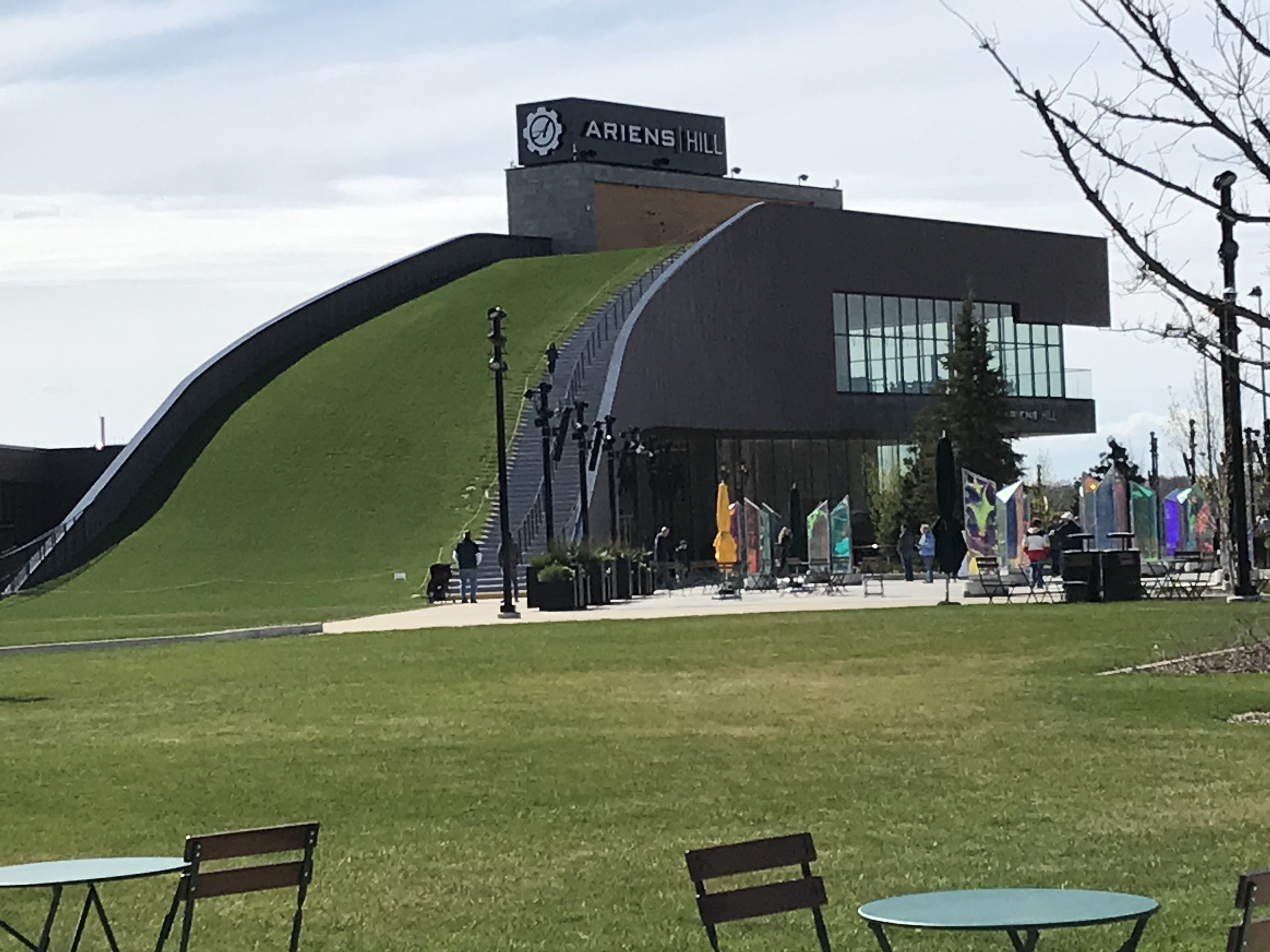 Ariens Hill in Titletown District during summer